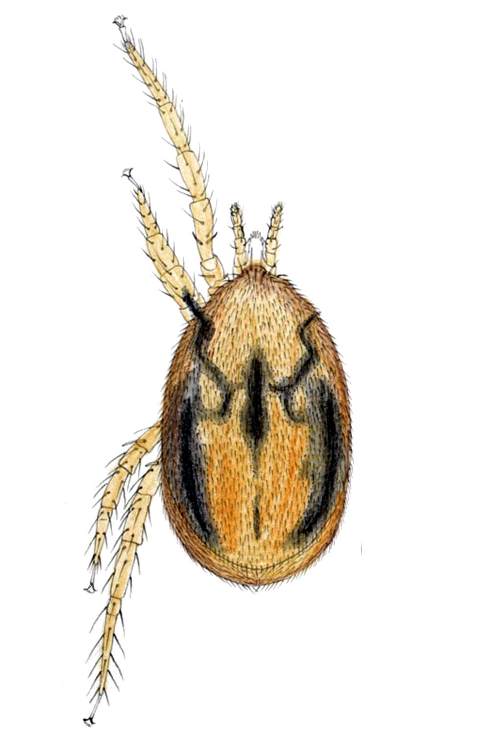 Haemogamasus hirsutus (Acari: Mesostigmata: Haemogamasidae).